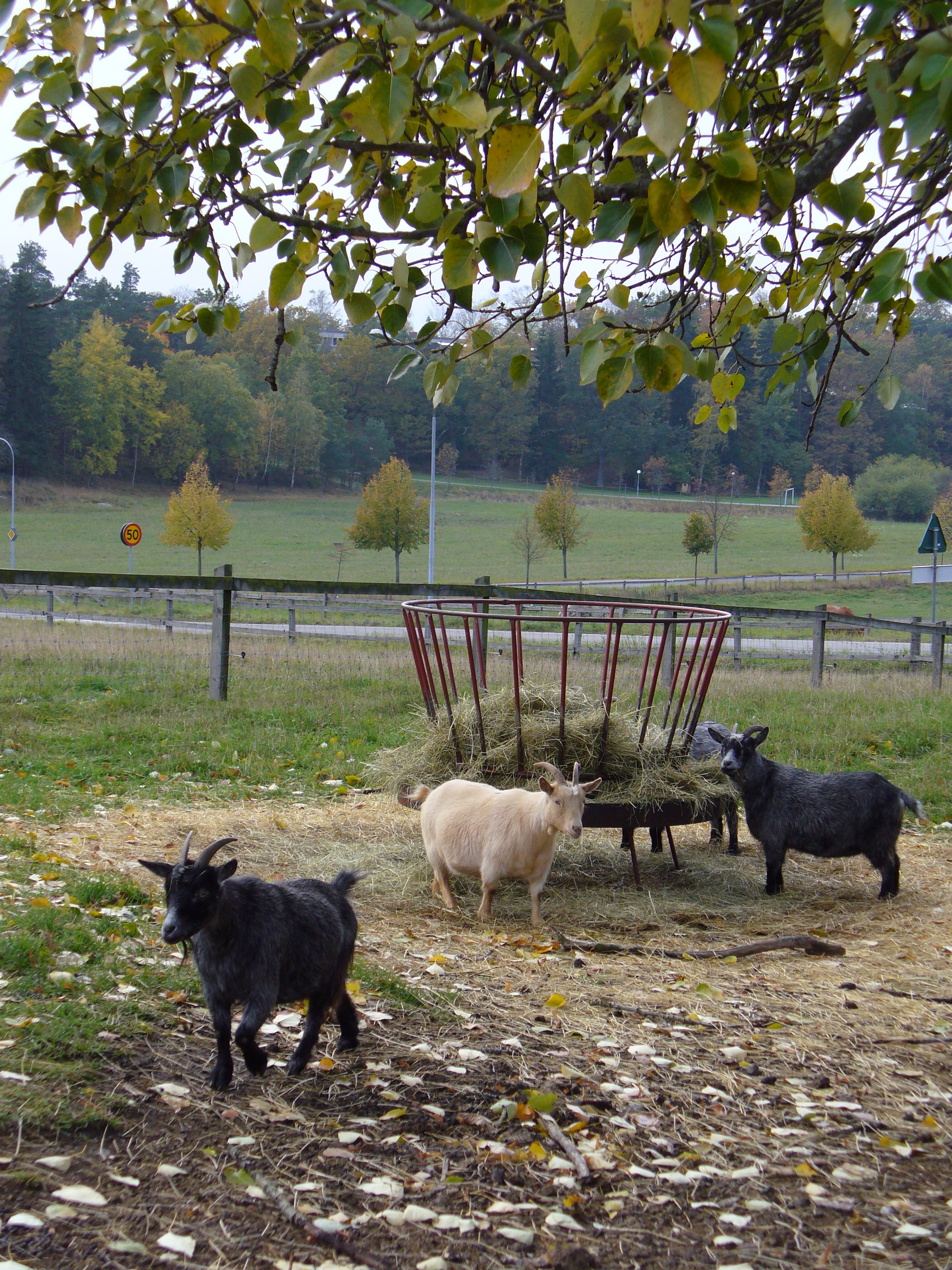 A manger at Elfvik, Lidingö, Sweden.